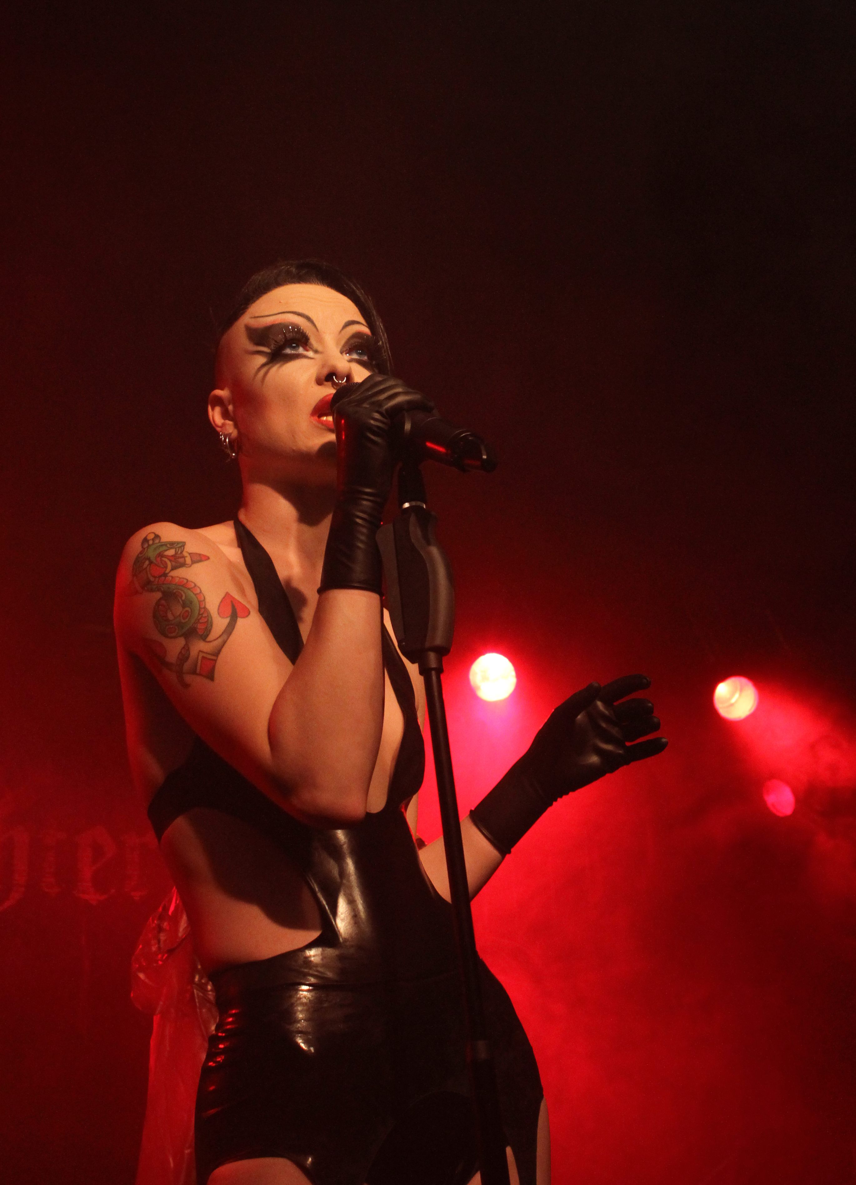 Aranea Peel, Grausame Töchter, München, Theaterfabrik August 14th 2012